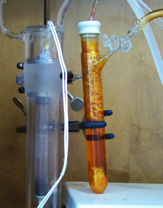 flask containing slurry of Fe2(CO)9 in HOAc